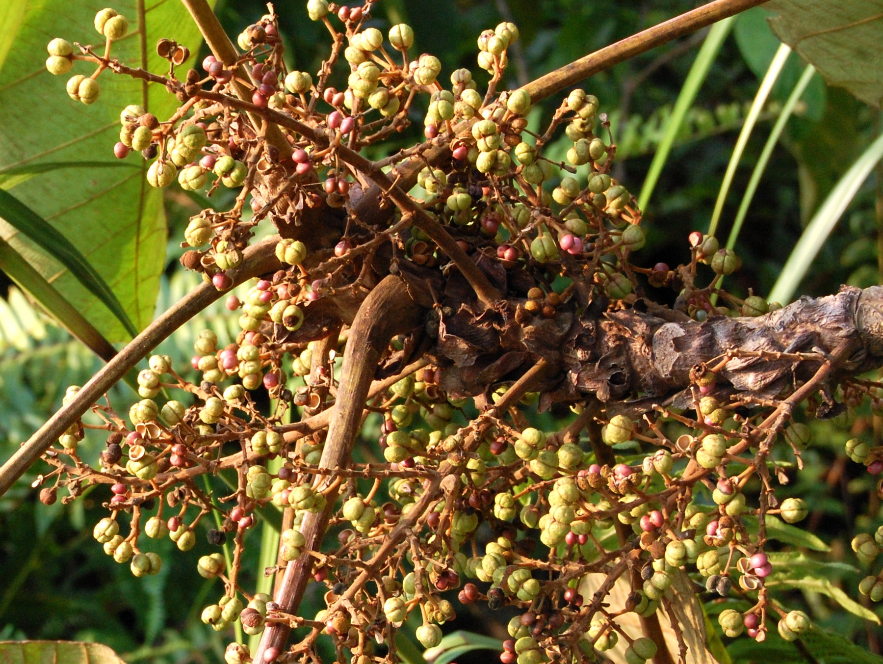 Macaranga gigantea; infructescences. From Seruyan, Central Kalimantan, Indonesia.